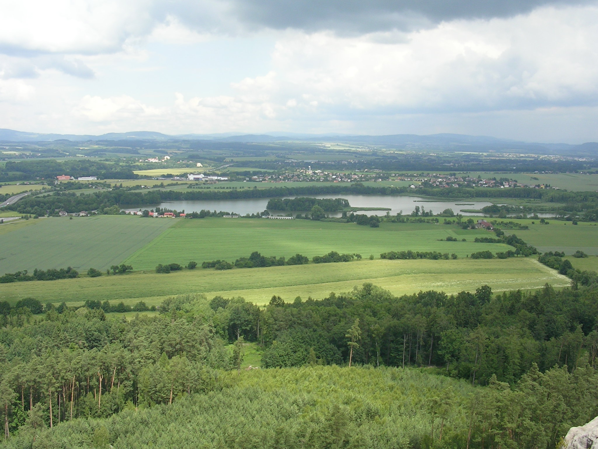 Žabakor Pond, Mladá Boleslav District, Central Bohemian Region, the Czech Republic. A view from Příhrazy Rocks. - Google Maps - Google Earth